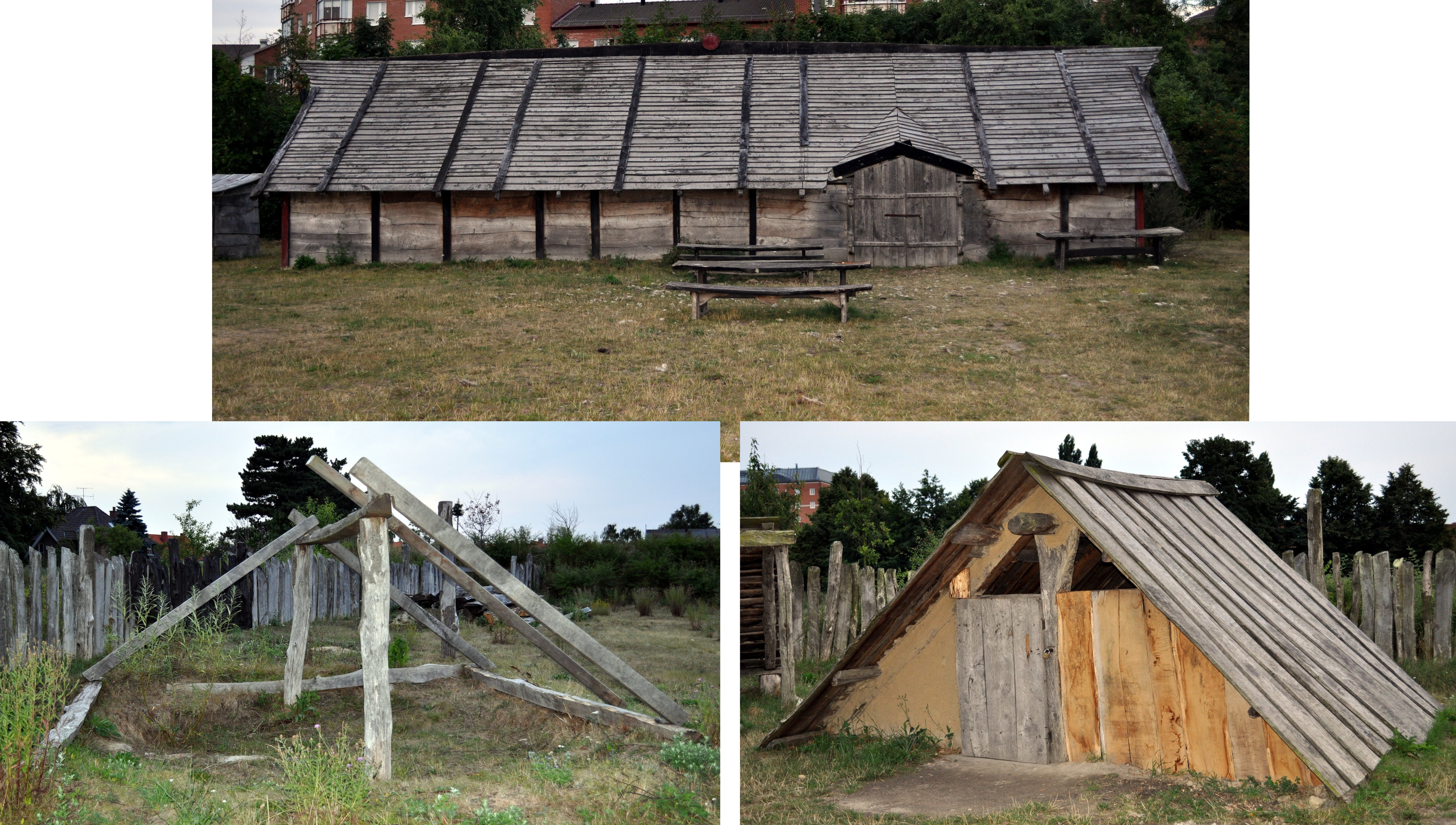 The 3 houses of the Viking farm of the Trelleborg in Trelleborg (Sweden).